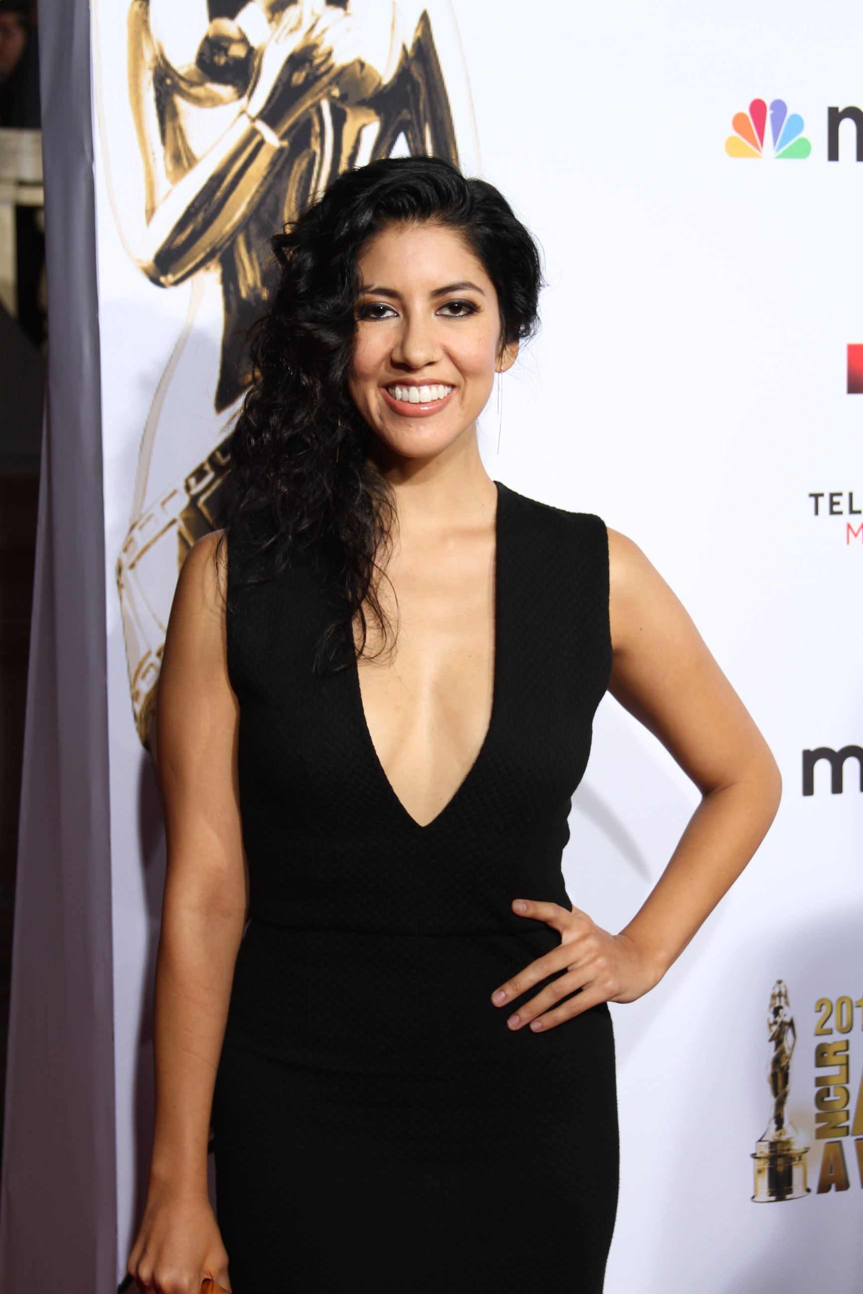 Actor Stephanie Beatriz at the 2014 Alma Awards